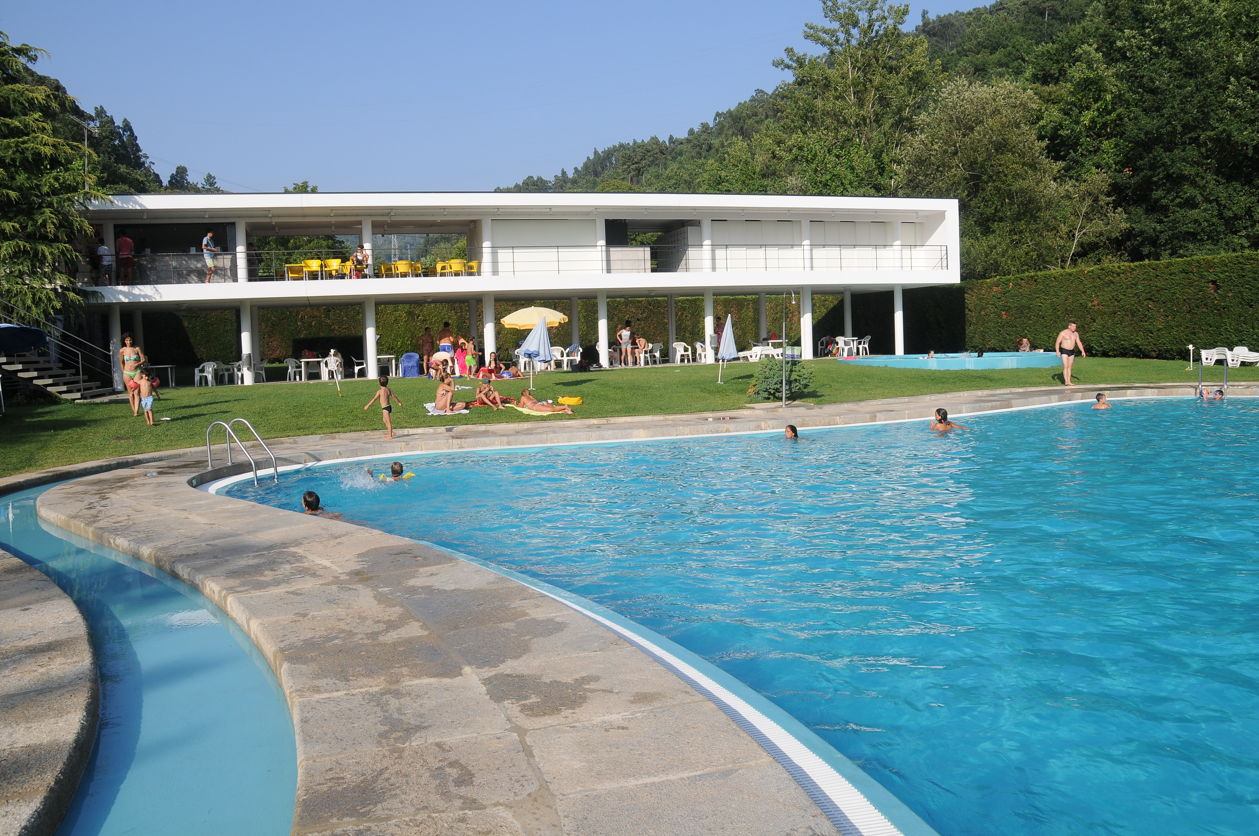 Outdoor swimming pool in Caldelas, Amares, Portugal.